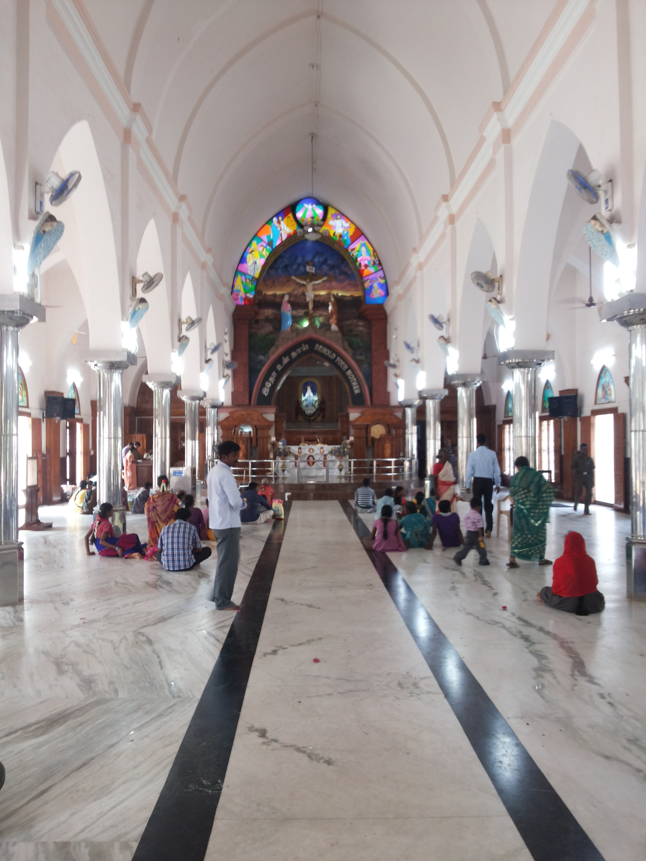 Poondi Madha Basilica